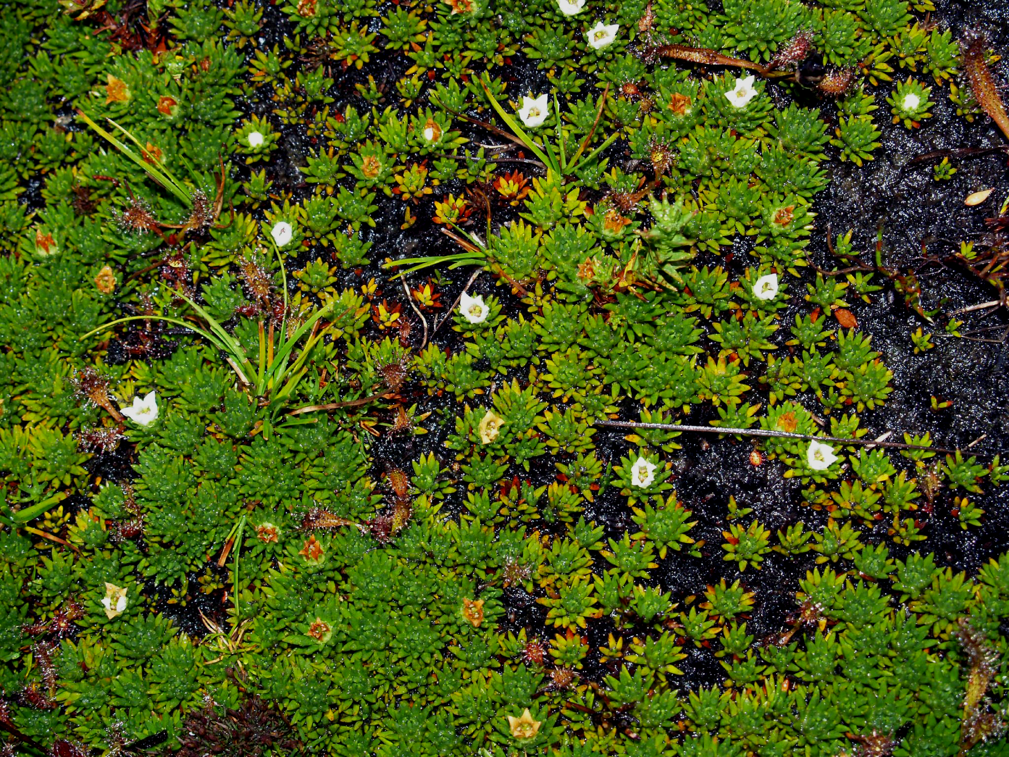 Photo of Donatia novae-zelandiae from Tasmania.